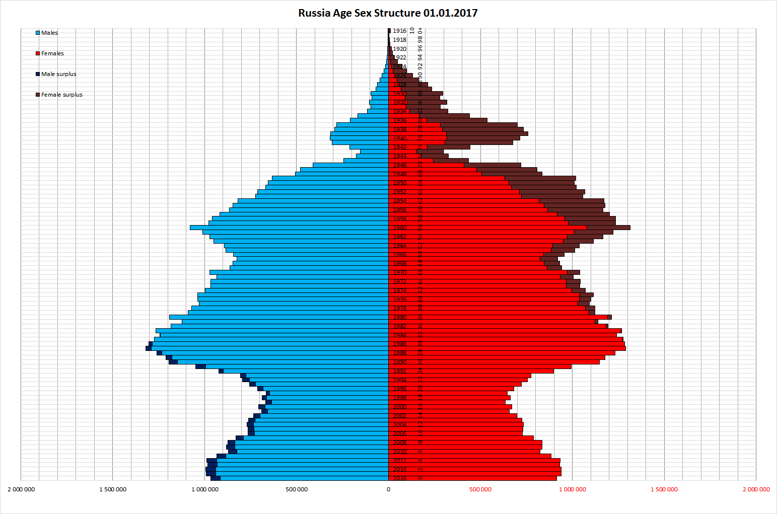 Russian population by age and sex as on jan, 1, 2017